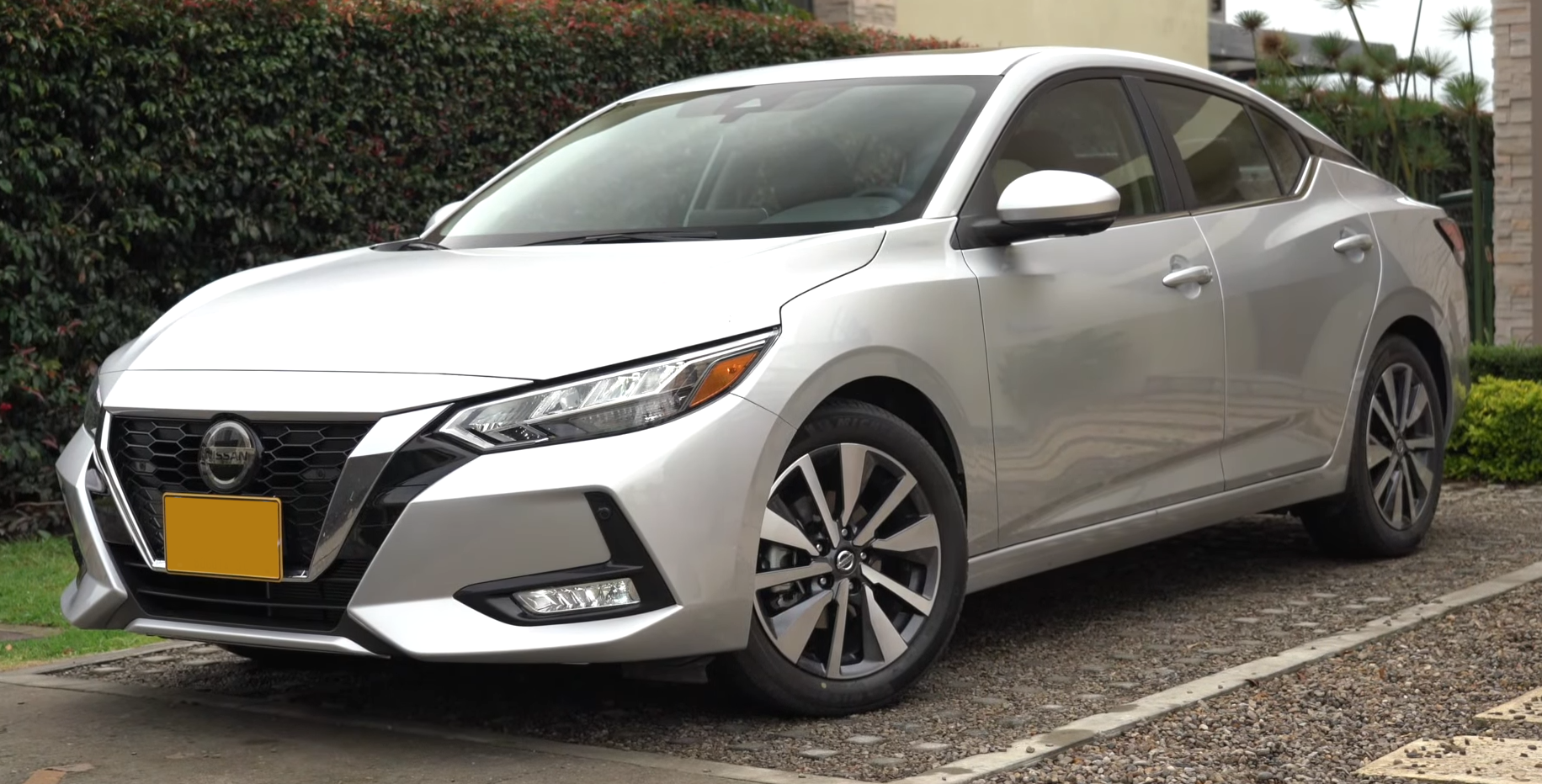 Nissan Sentra B18 front view (Colombia)